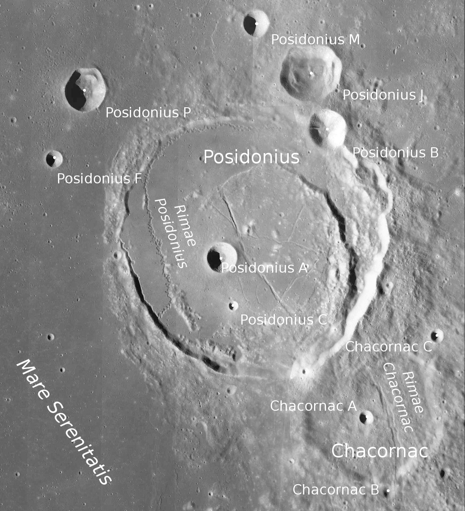 Crater Posidonius (detail of LROC - WAC global moon mosaic)